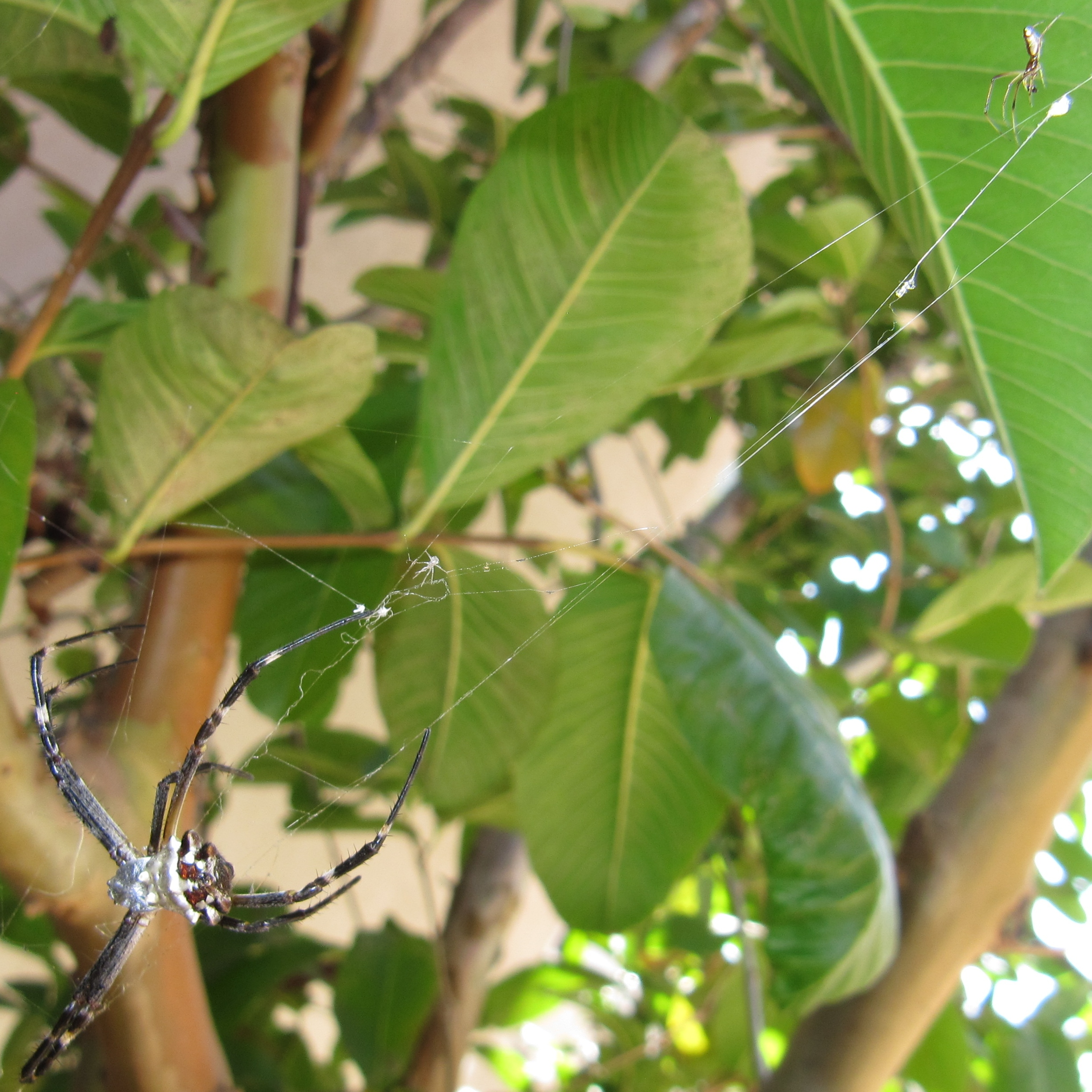 Female silver argiope (bottom-left), with a kleptoparasitic or commensal dewdrop spider (top-right, also with silver abdomen) living in its web. This web was at head height in a guava tree, and had no stabilimenta. There is also a dead spiderling or shed exoskeleton (species unknown) in the web just above and to the right of the argiope. Photo taken in Orange County, California, with a Canon PowerShot SX200 IS. Flash fired with -2 EV adjustment. The shot was taken with the camera as perpendicular to the line between the Argiope argentata and the Argyrodes sp. as possible, to get a non-distorted size comparison and keep them both in focus. This version has been cropped to make it easier to see the spiders when displayed in thumbnail format. The original is also available.